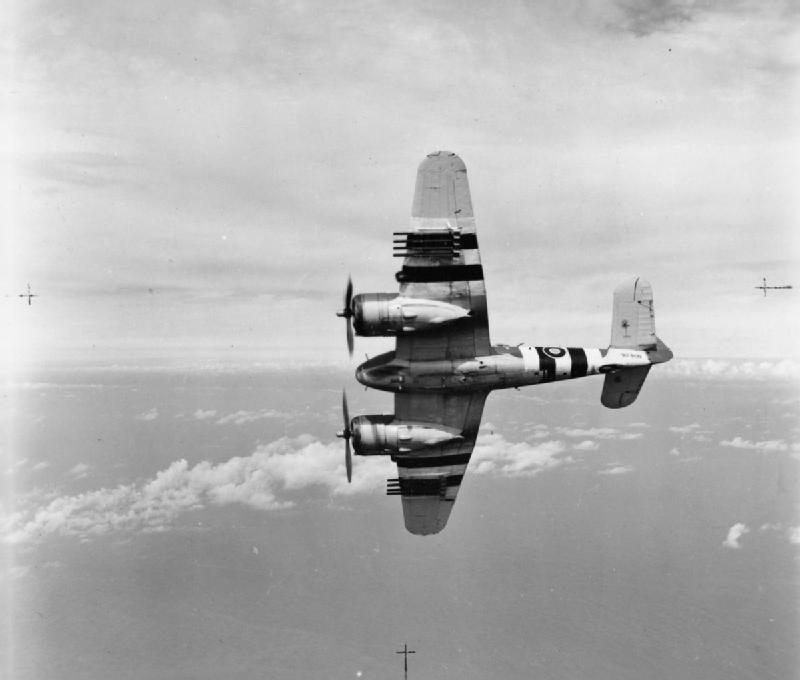 Aircraft of the Royal Air Force 1939-1945- Bristol Type 156 Beaufighter. Beaufighter TF Mark X, NT950 ‘MB-T’, of No. 236 Squadron RAF based at North Coates, Lincolnshire, banking away from the camera, showing the rocket rails. NT950 was shot down off the Dutch coast on 3 October 1944.